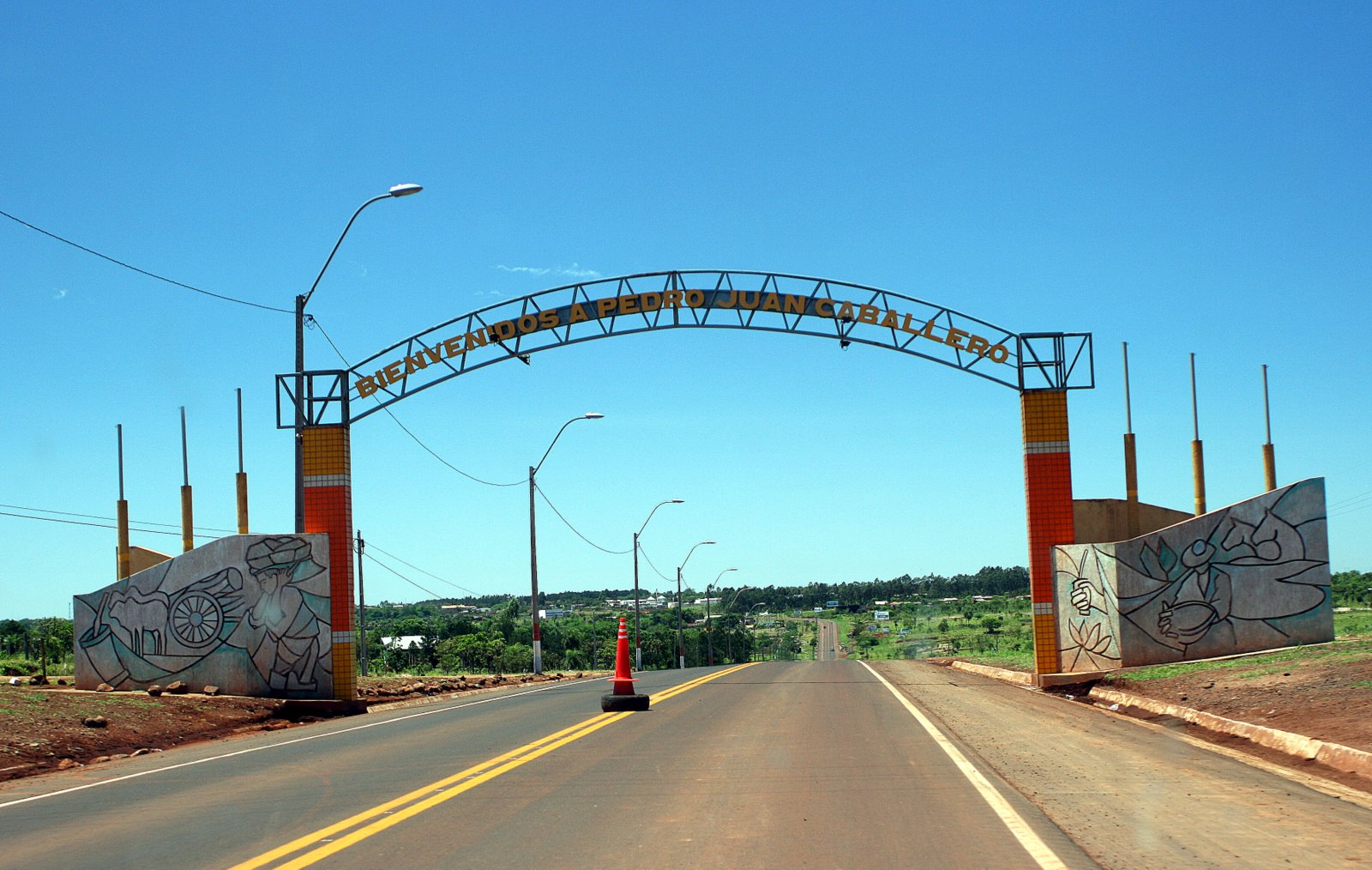 Welcome arch in Route 5 at Pedro Juan Caballero, Paraguay.